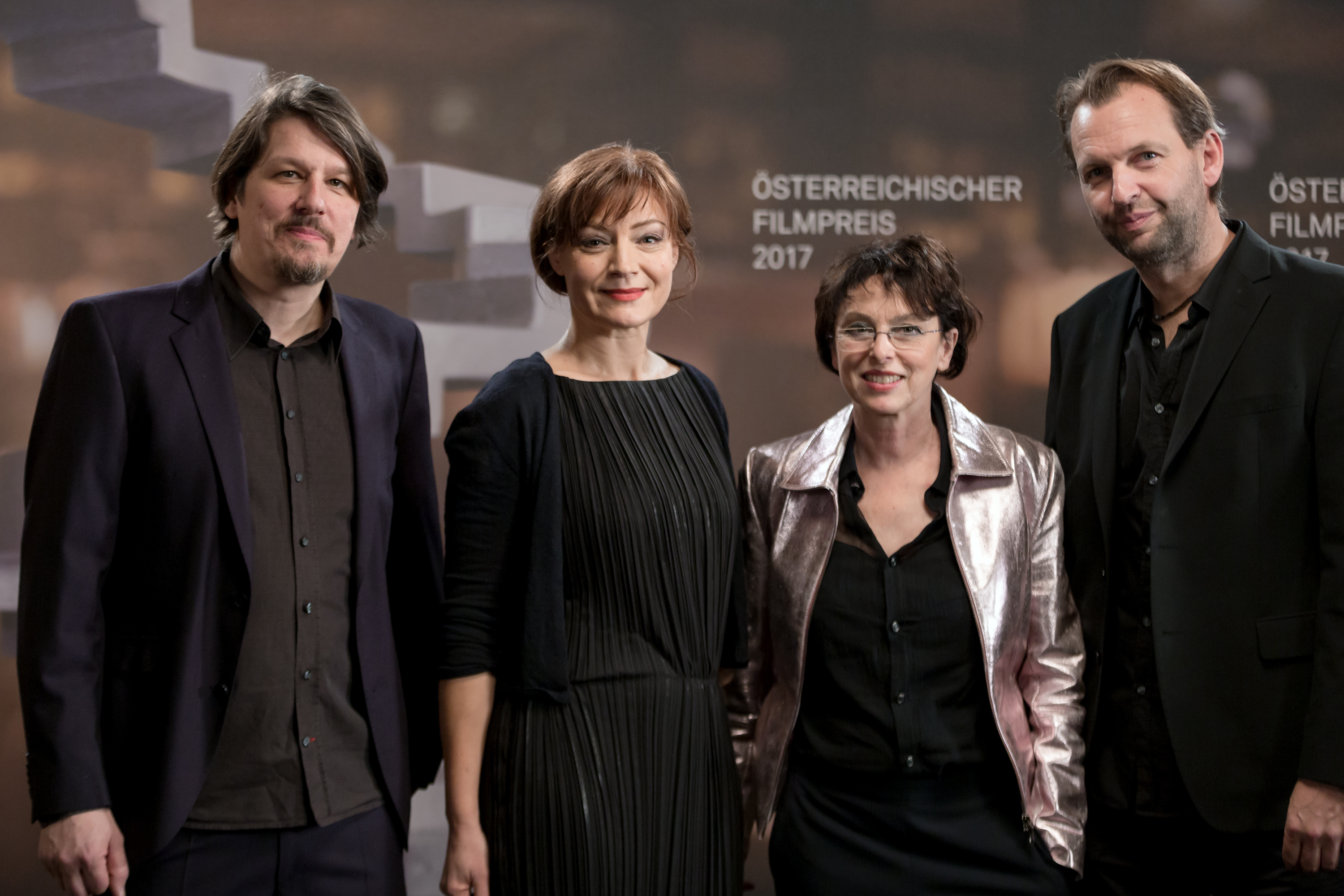 A part of the team of the film Stille Reserven, ltr.: Hannes Salat (scenery), Marion Mitterhammer (actress), Karina Ressler (editing) and Martin Gschlacht (cinematography) at the Austrian Film Awards 2017 (Rathaus, Vienna,Austria).